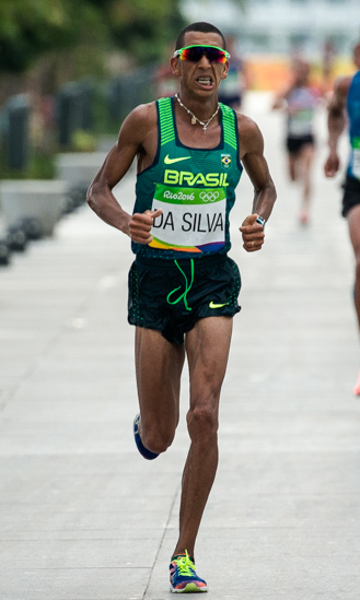 Men's marathon at the 2016 Summer Olympics